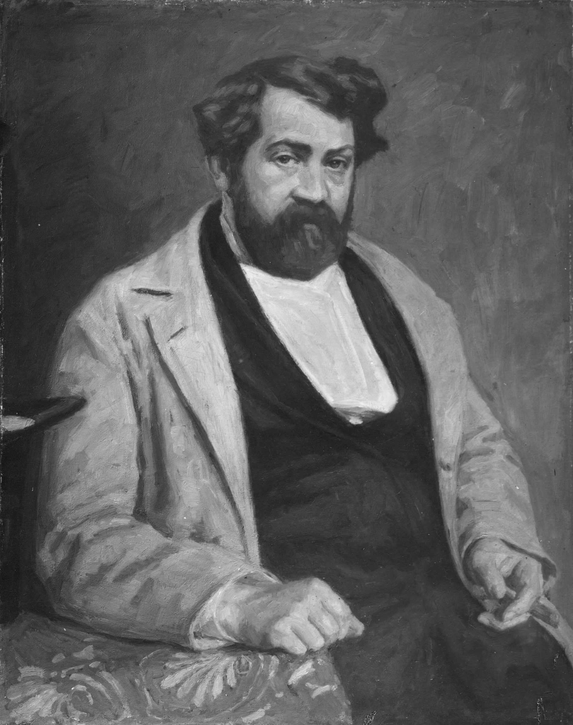 Painting after photograph.